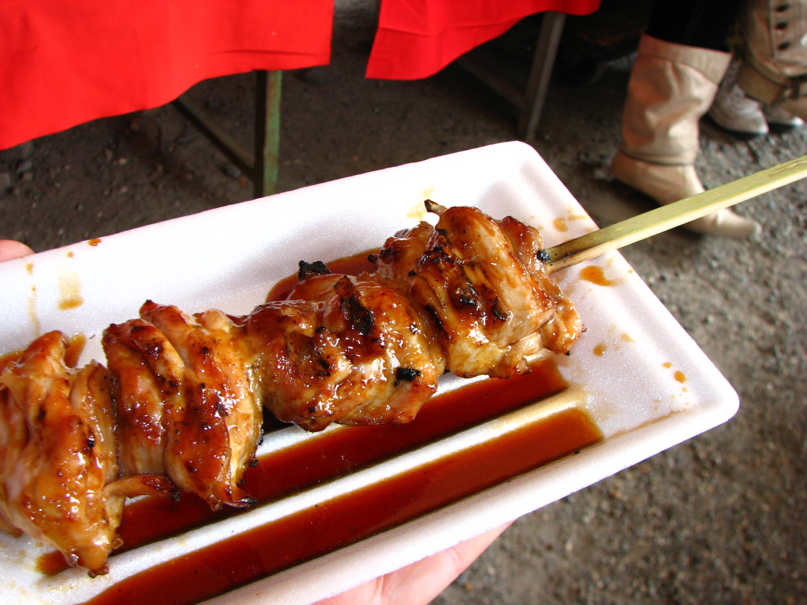 Mmm... delicious chicken on a stick. Nothing wrong with this.